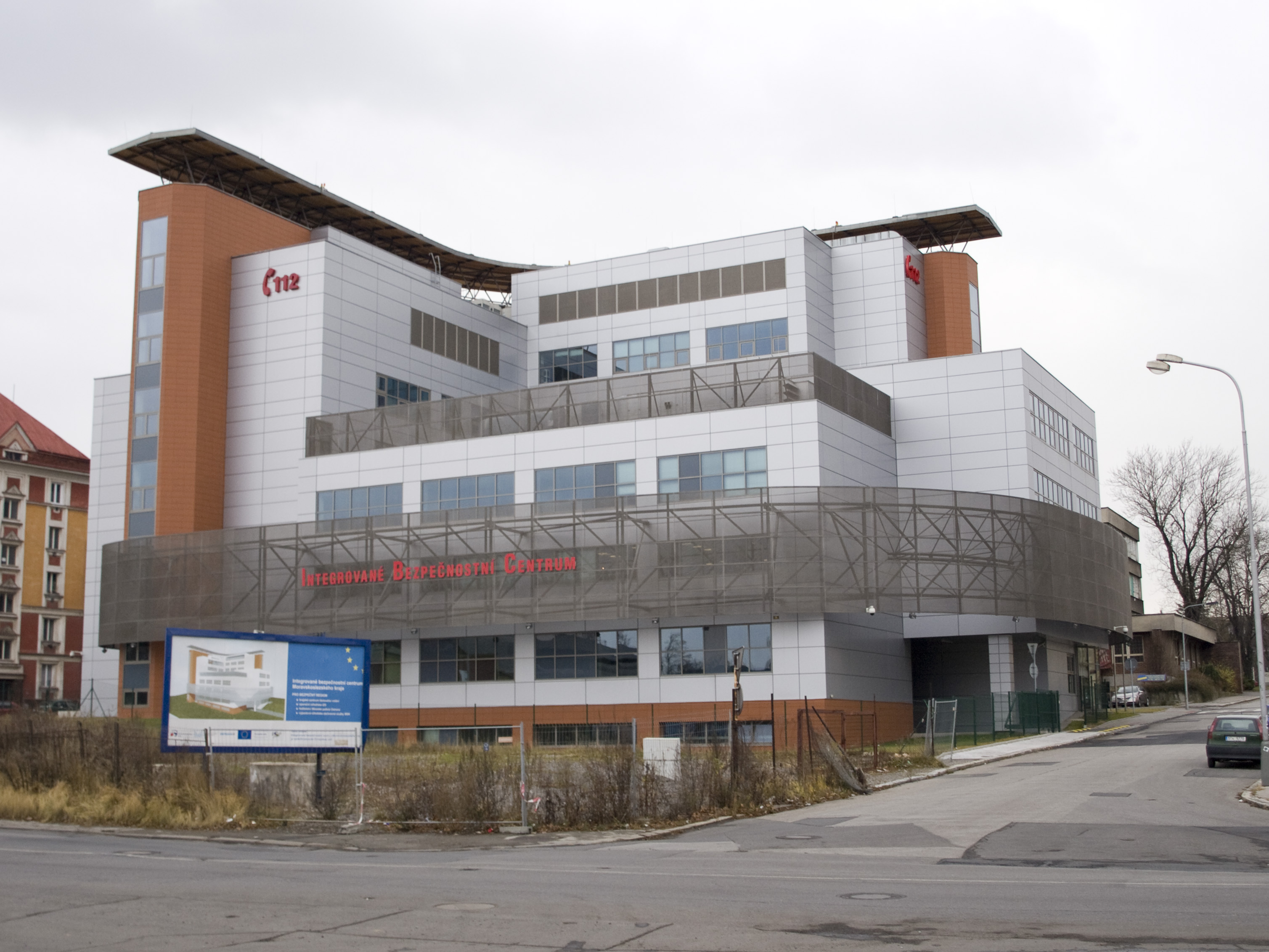 112 centrum, Ostrava